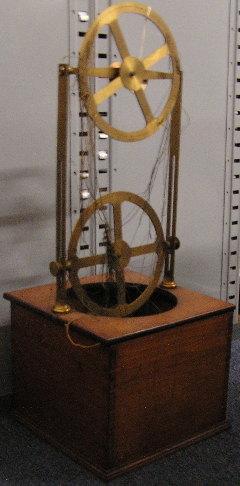 3D Geometrical Model by Théodore Olivier